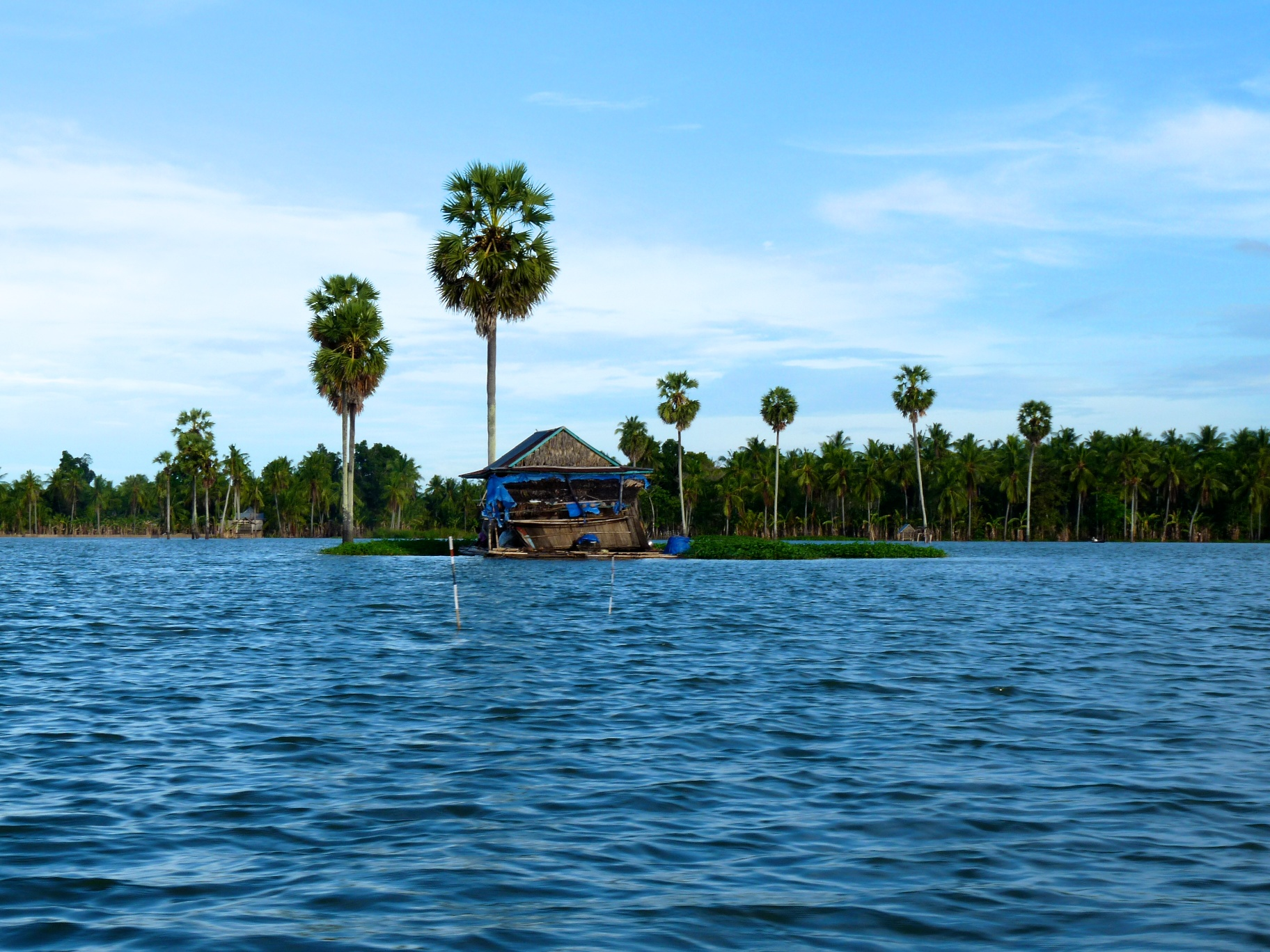 Floating houses on Lake Tempe, South Sulawesi, Indonesia